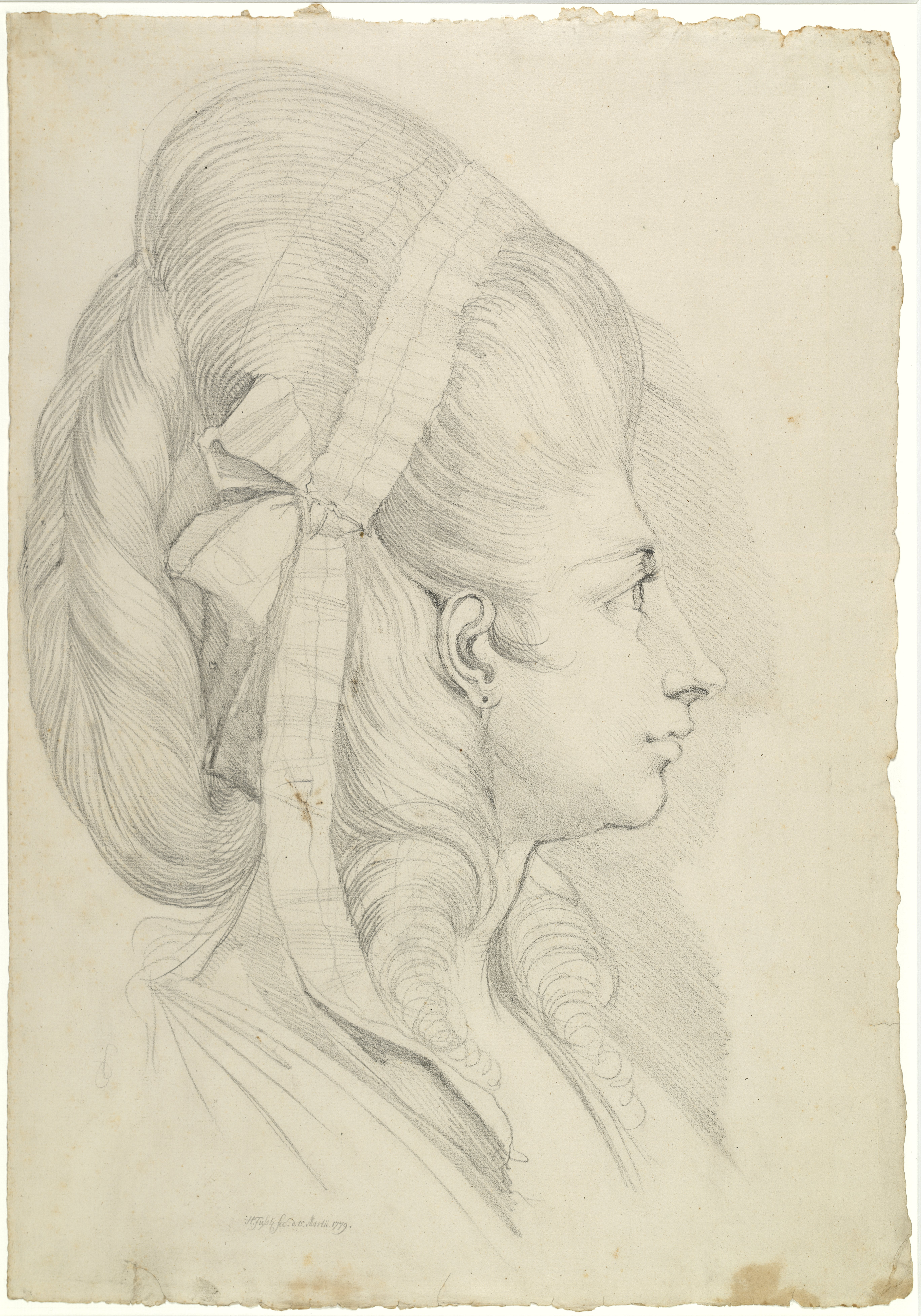 Portrait of Anna Magdalene Schweizer, née Hess, 1751-1814, at the age of 27